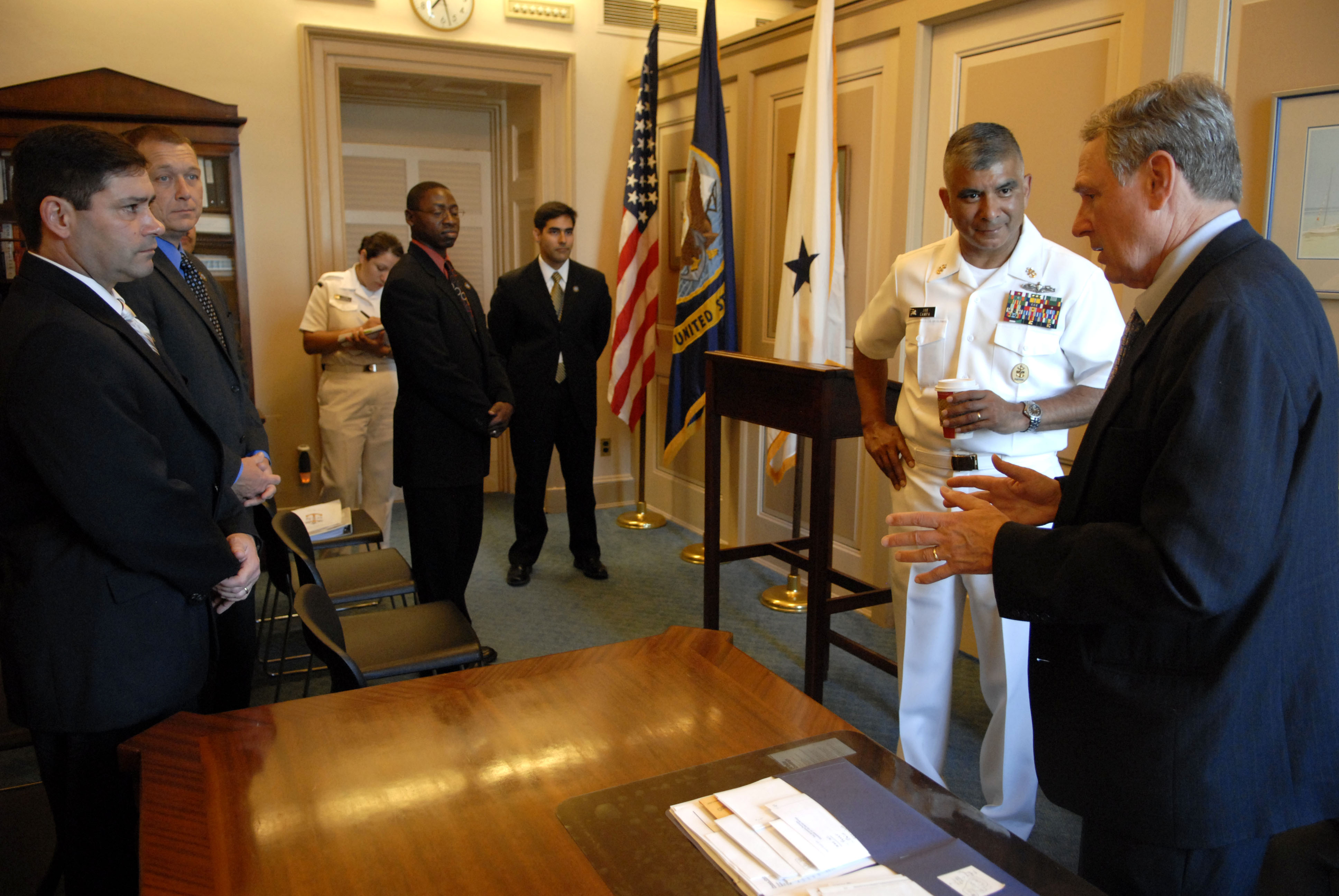 WASHINGTON (June 27, 2008) Master Chief Petty Officer of the Navy (MCPON) Joe R. Campa Jr. talks to Rear Adm. John Eisold and Sailors assigned to the Office of the Attending Physician, United States Congress, during a visit to Capitol Hill. U.S. Navy photo by Mass Communication Specialist 1st Class Jennifer A. Villalovos (Released)